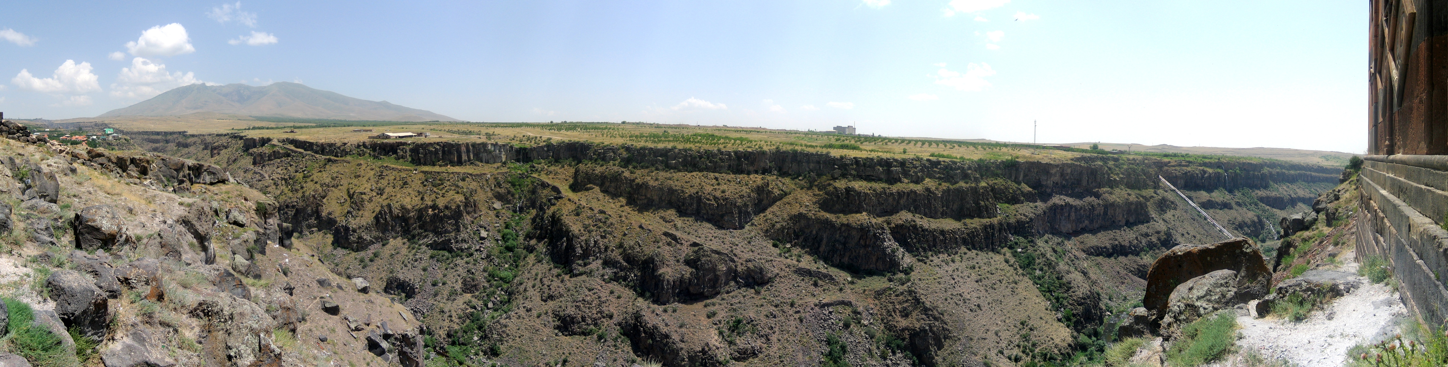 The canyon carved by the Kasagh River next to the 13th century Armenian monastery Hovhannavank. The mountain on the left is the Mountain of Ara (Arayi Lerr, Armenian Արայի լեռ) named after Ara the Handsome.